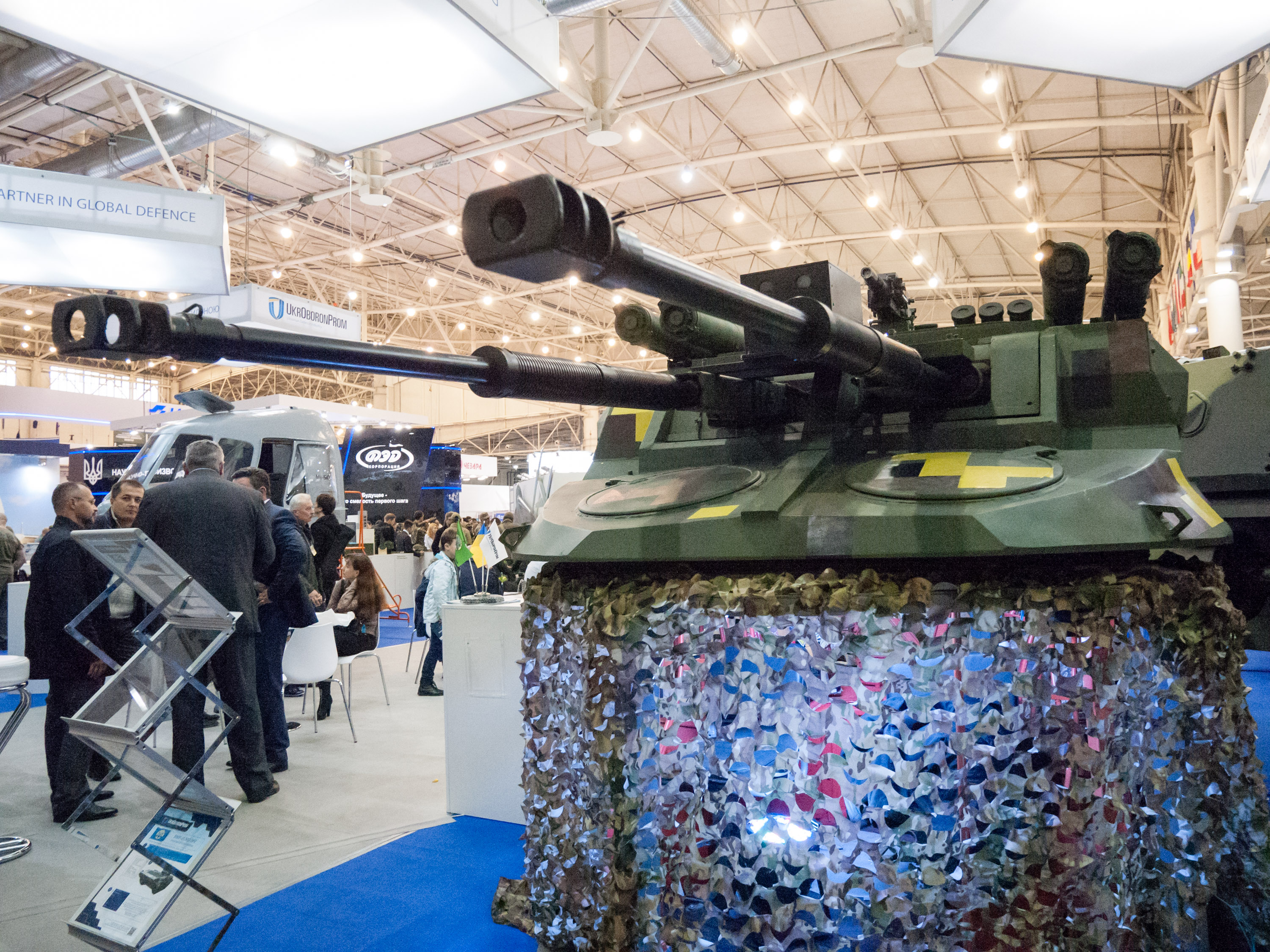 "Duplet" fighting module (Ukraine)